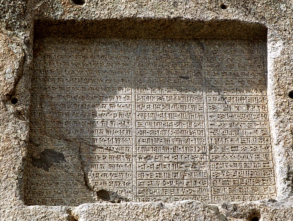 Darius I's trilingual inscription in old persian, elamite and babylonian, at Ganj Nameh, near Hamadan, Iran.